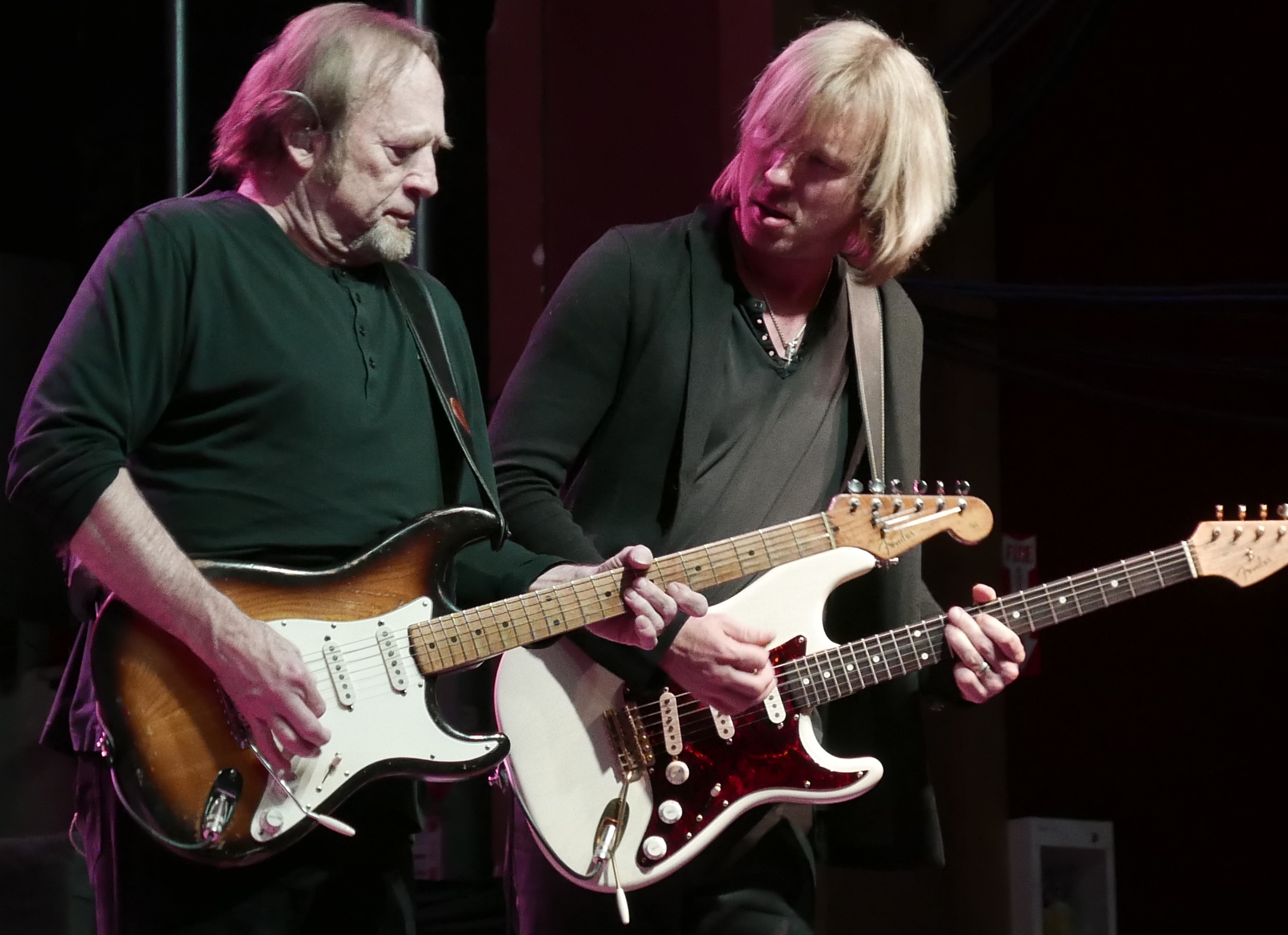 Stephen Stills and Kenny Wayne Shepherd performing as The Rides, June 2016, Berkeley, CA.